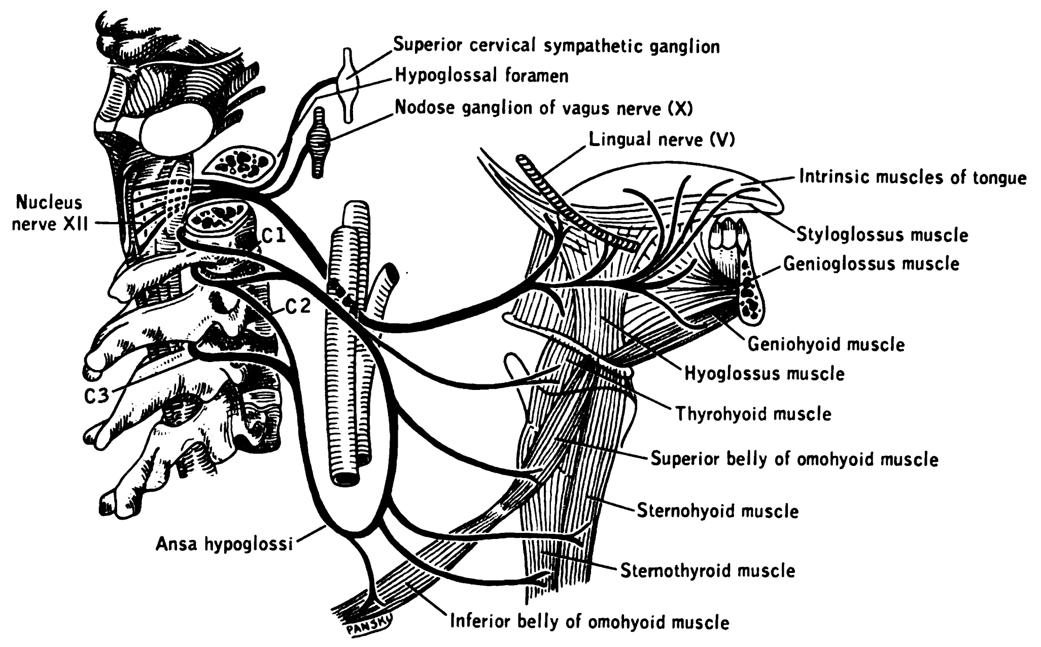 Anatomical illustration of the human nervous system from the 1960 book A functional approach to neuroanatomy